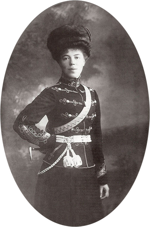 Olga Alexandrovna of Russia as honorary Commander-in-Chief of the 12th Akhtyrsky Hussar Regiment of the Imperial Russian Army.